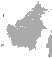 Natuna Island Surili (Presbytis natunae) range